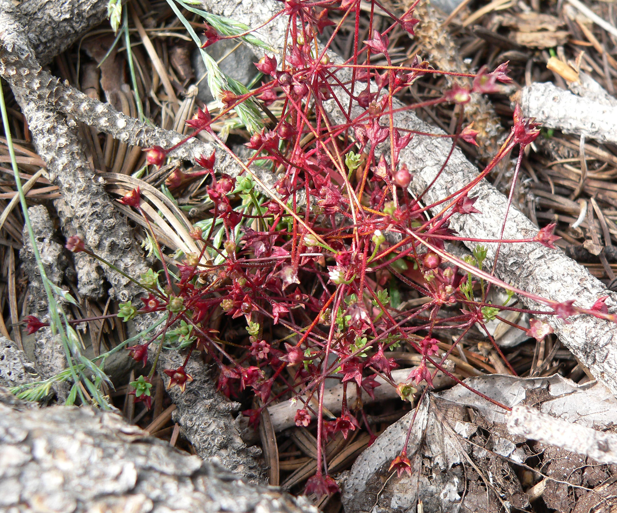 Androsace septentrionalis subsp. subumbellata in avalanche chute 1.5 km SSW of the ski area in Lee Canyon, Spring Mountains, southern Nevada (elev. about 2900 m)